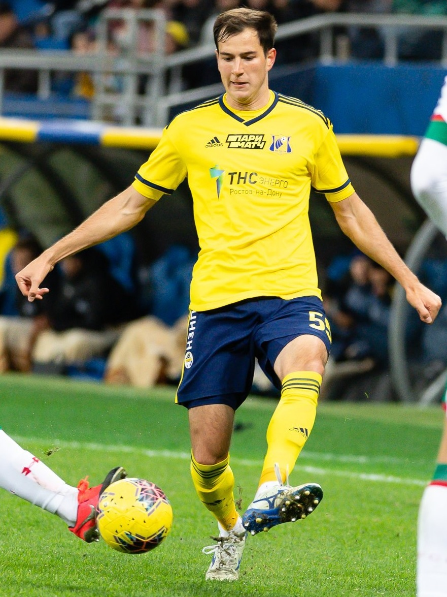 Maksim Osipenko with FC Rostov in a game against FC Lokomotiv Moscow.